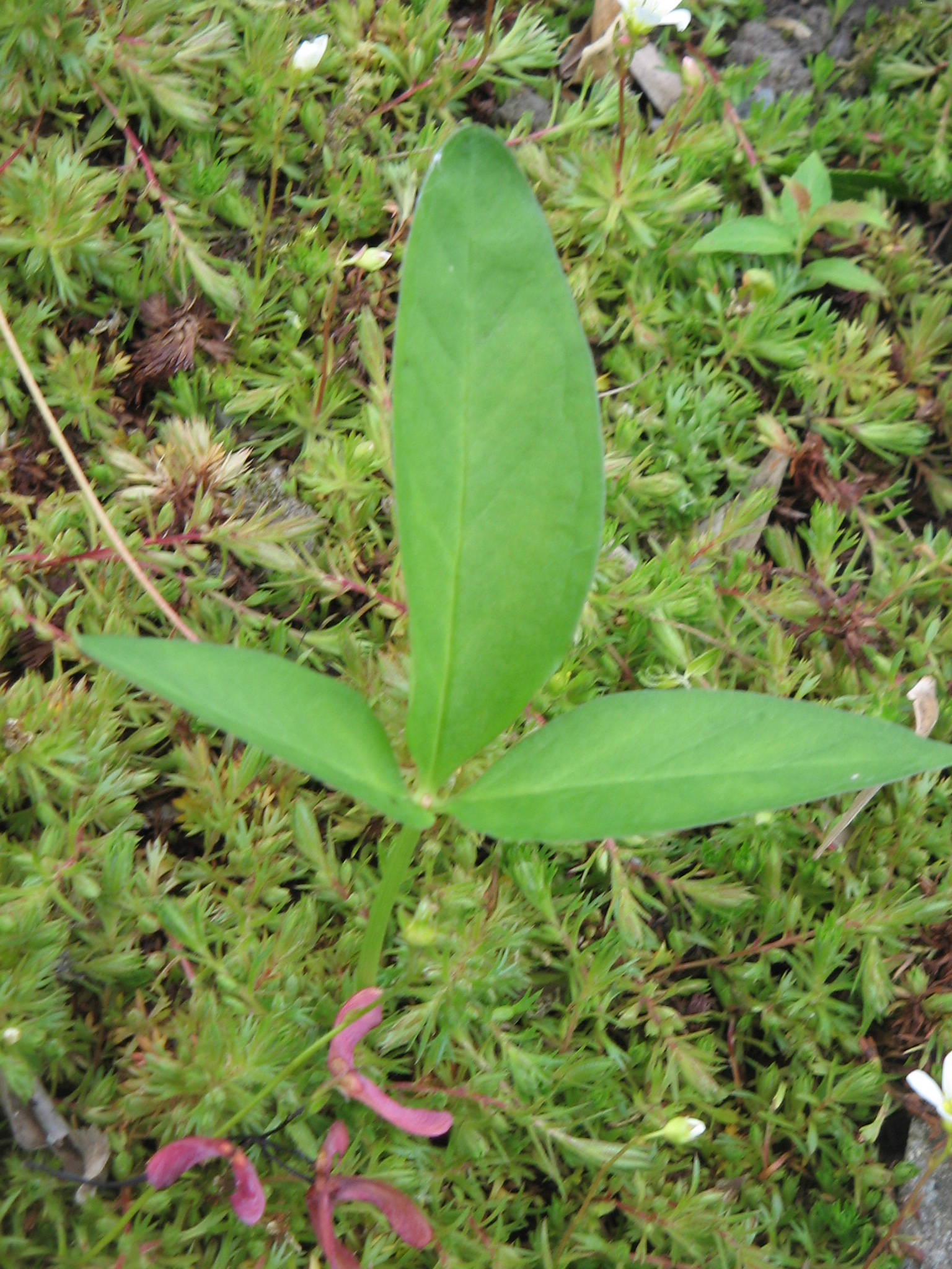 Pinellia ternata close-up leaf